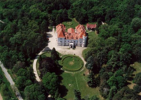 Rum, Hungary, aerialphotography